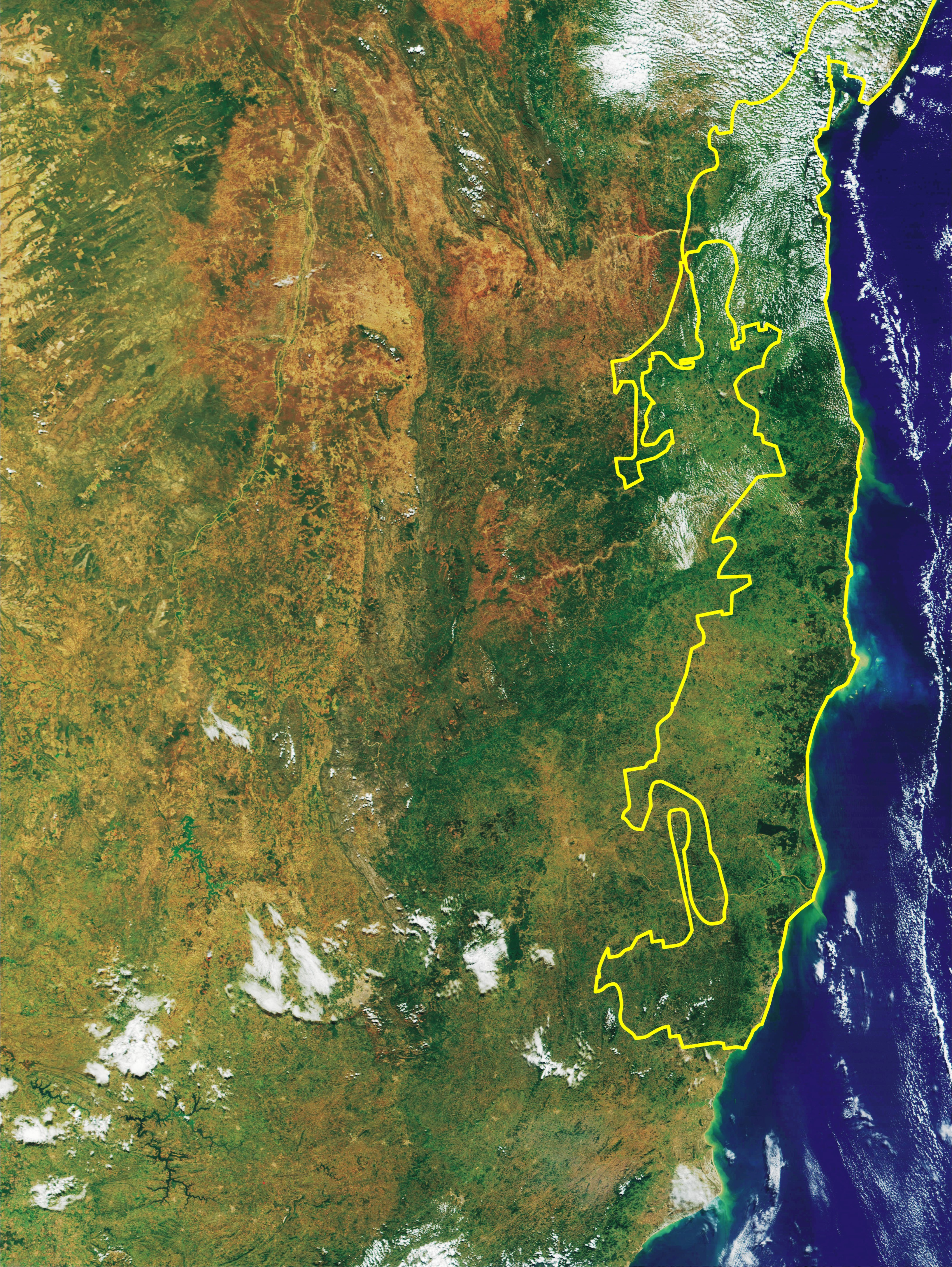 Bahia coastal forests ecoregion as defined by WWF. The yellow line encloses the ecoregion limits. I, Miguelrangeljr, made the limits with Corel Draw X4. Adjustments in color to show forests remainings.